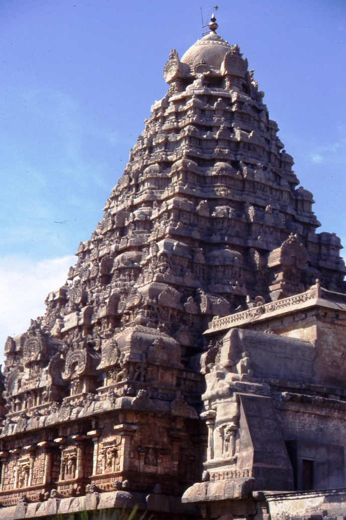 Gangaikondacolapuram Temple, Chola Dynasty, Thanjavur, Tamil Nadu, India